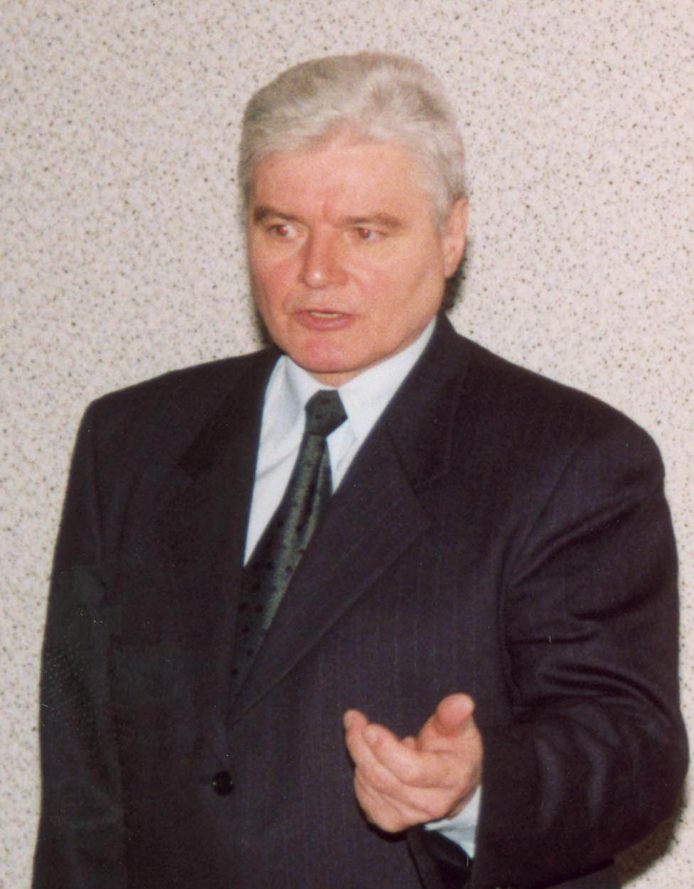 Former governor of Kaliningrad region Vladimir Yegorov